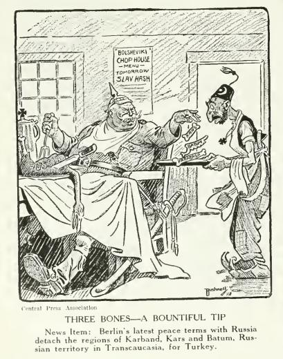 "Three bones–a bountiful tip". A political caricature by Bushnell on the Treaty of Brest-Litovsk between Russia and Germany during World War I.